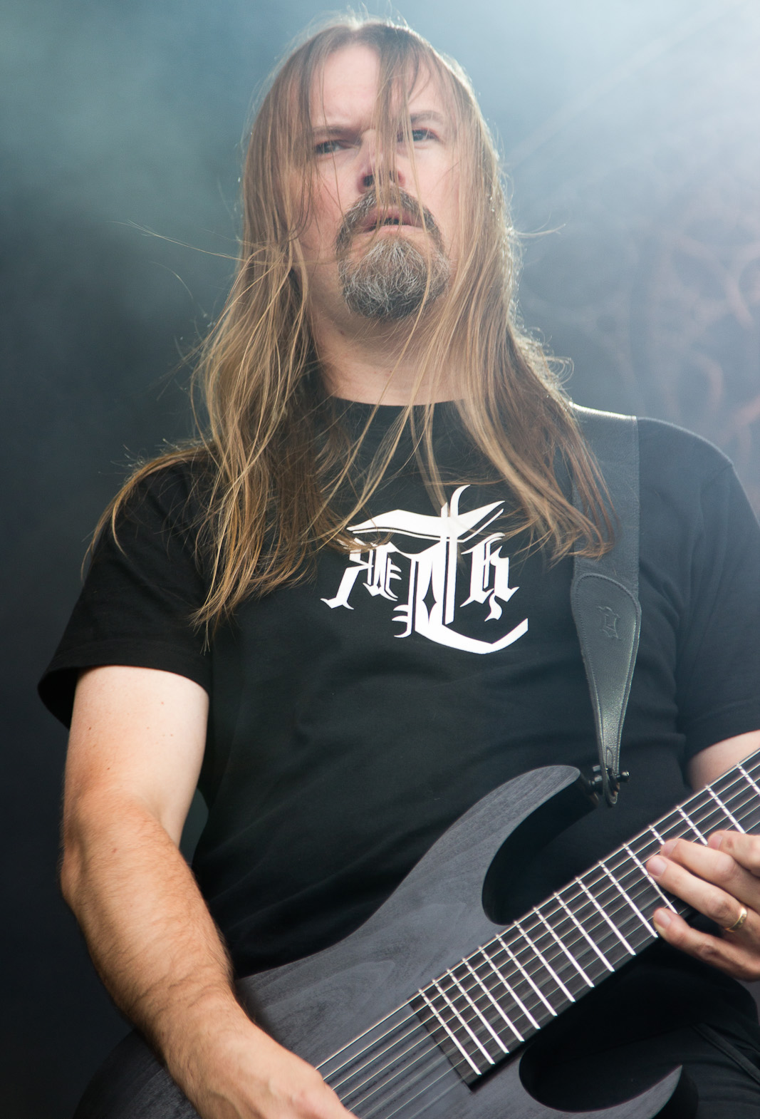 Guitarist Fredrik Thordendal from Swedish band Meshuggah on July 22, 2012